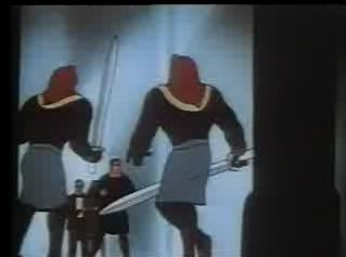 A screenshot from the animated short The Mummy Strikes.